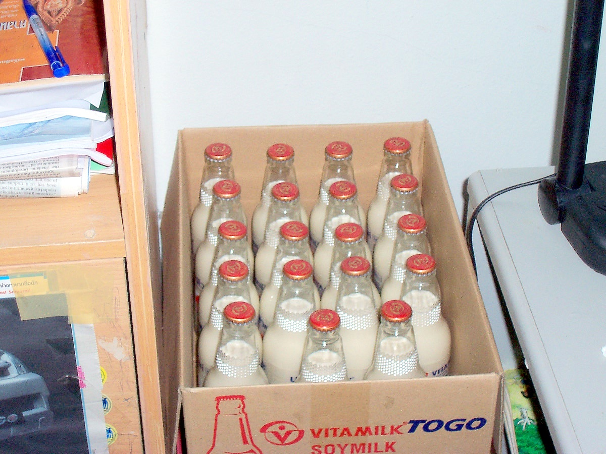 "Vitamilk" (ไวตามิลค์) Soy milk bottles. Brighter version with additionally better natural light.